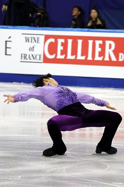 Shoma Uno at the 2017 Four Continents Championships.